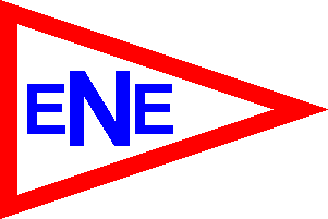 ene flag